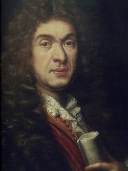 Jean-Baptiste Lully (1632–1687) by Nicolas Mignard 1606–1668